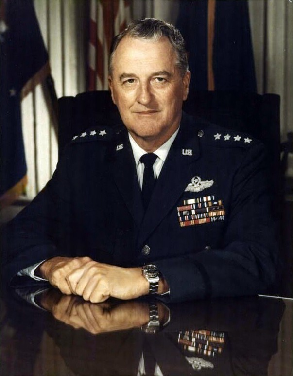 General Paul K. Carlton. USAF Official Color Portrait